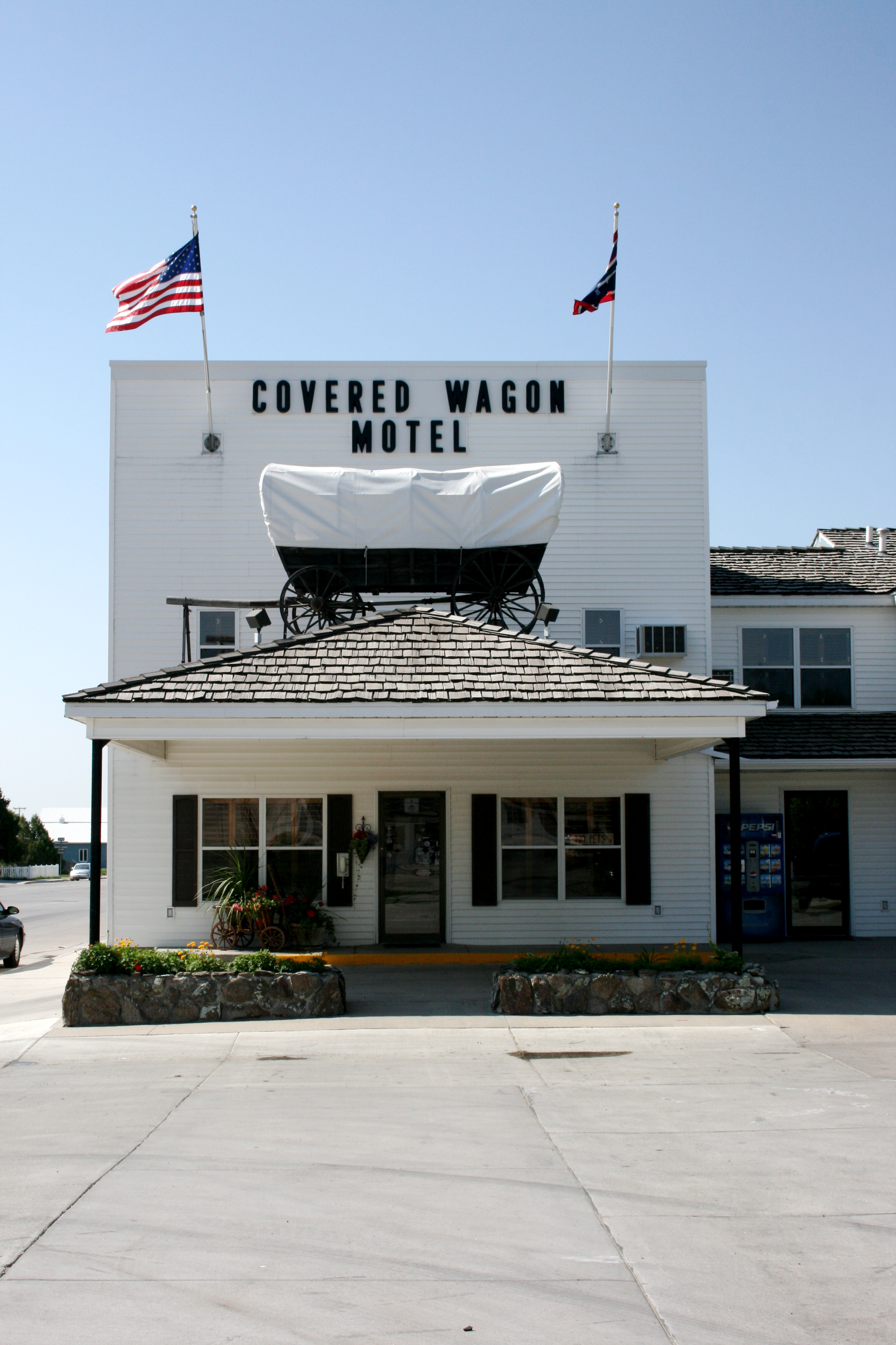 In June and July 2008, we'll be taking a trip of a lifetime between two oceans. We'll start on the Pacific coast by leaving our hearts in San Francisco, heading east across the United States to New York, New York and the Atlantic ocean. Along the way we'll be experiencing the heat of an Arizona summer, the beauty of New Mexico and the Rocky Mountains in Colorado before heading north via Wyoming into the badlands of South Dakota.